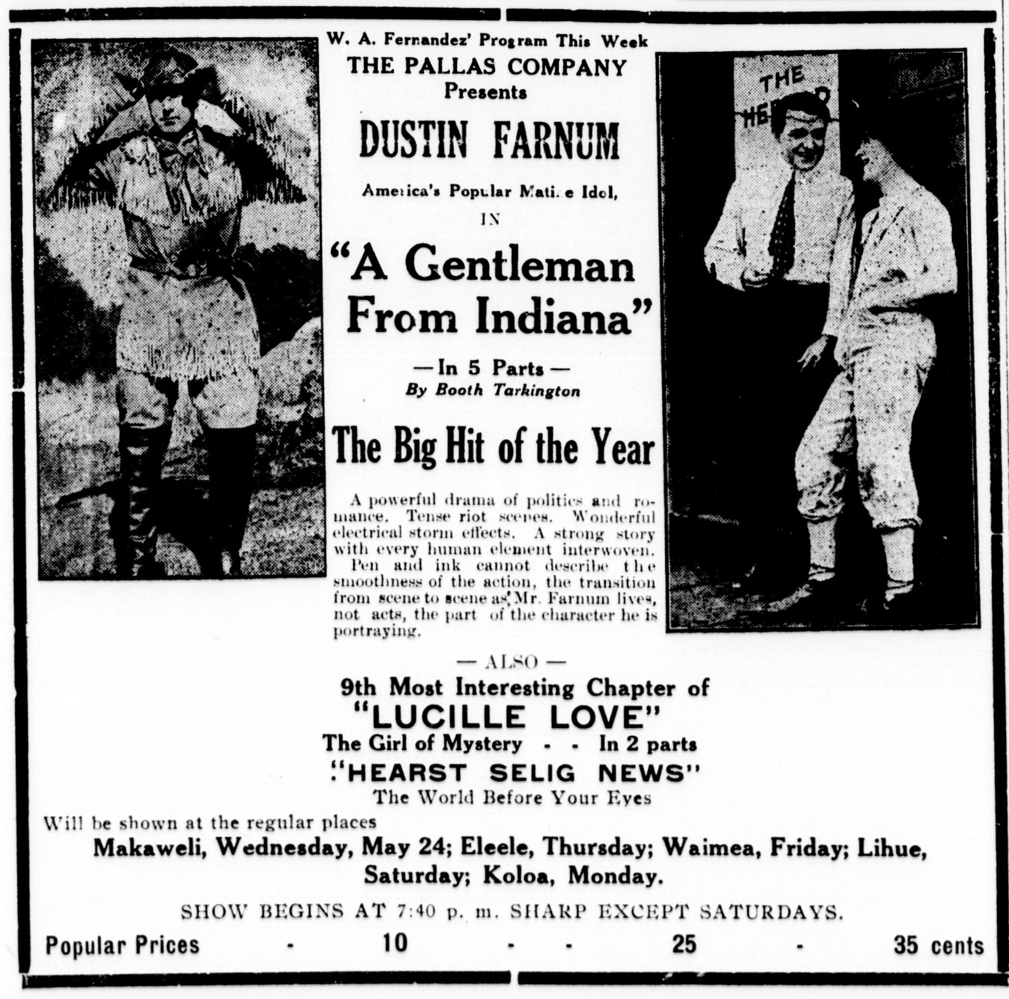 The Gentleman from Indiana is a 1915 American drama silent film directed by Frank Lloyd and written by Julia Crawford Ivers, Frank Lloyd, and Booth Tarkington. This is a newspaper advert for the film.